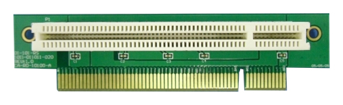 Core Systems 1U 32-bit PCI Riser Card